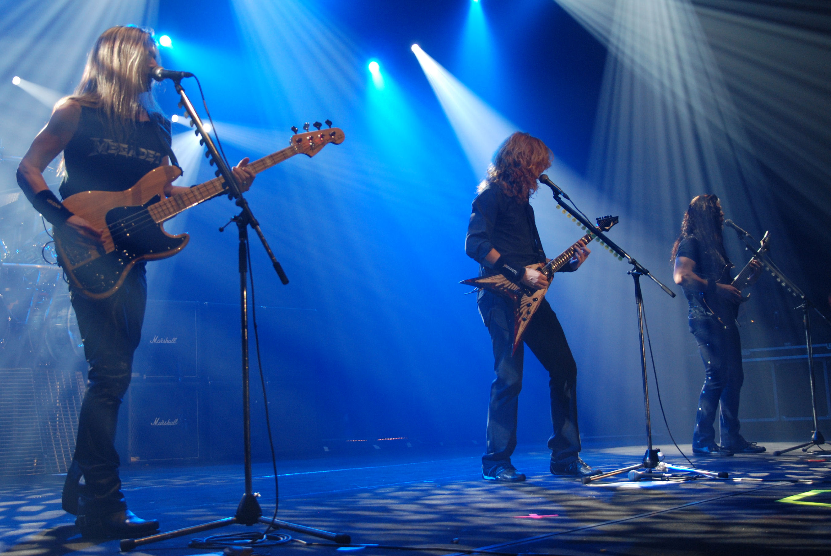 Megadeth during Metalmania 2008 festival